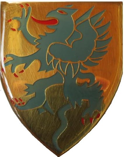 SADF era Boksburg Commando emblem